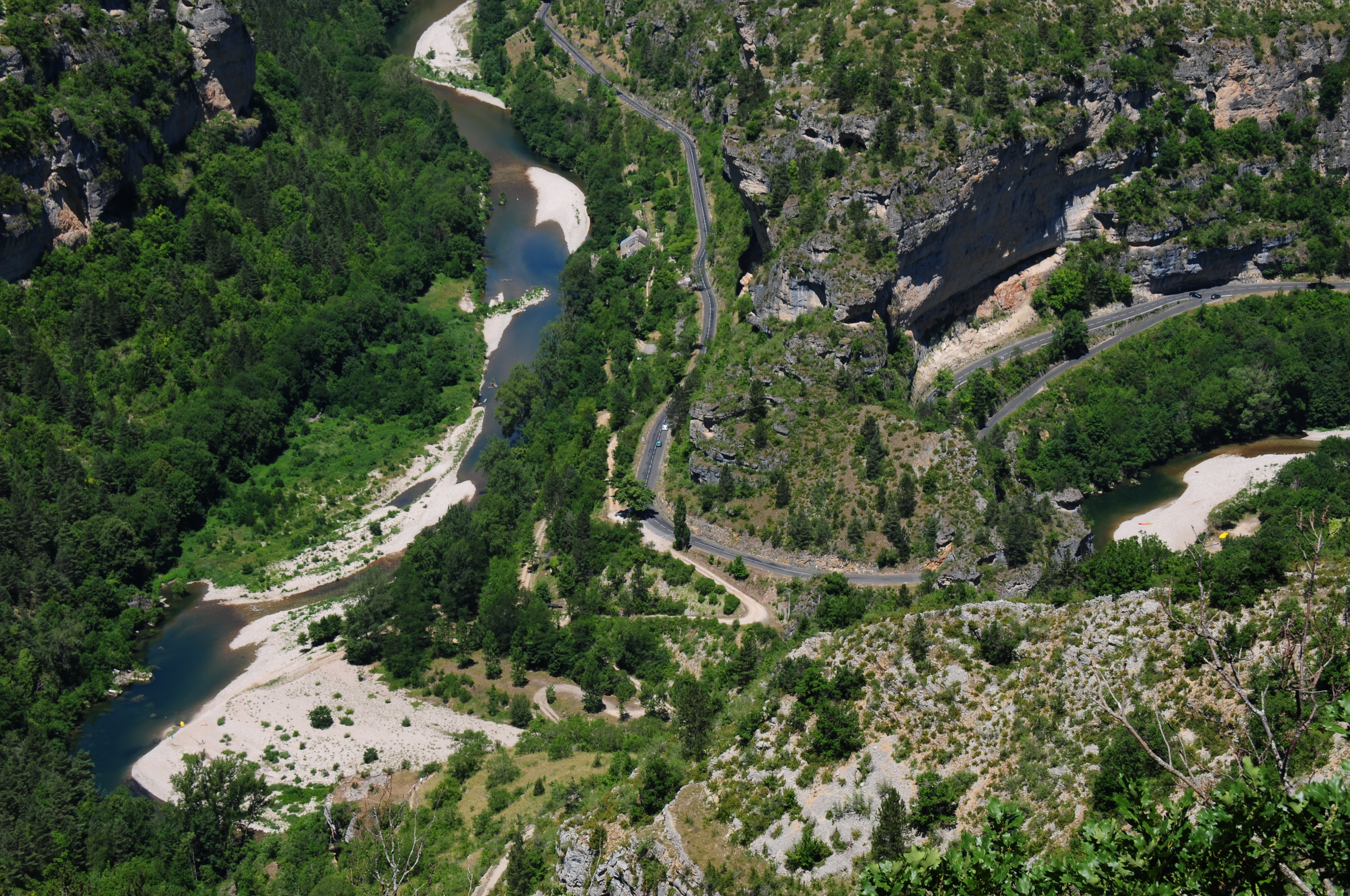 Detail of the deep streaming Tarn river between the high Causses. The heigth difference is some 450 m!!